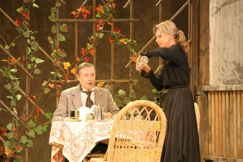 A scene from the play Maly Theatre «Seagull»